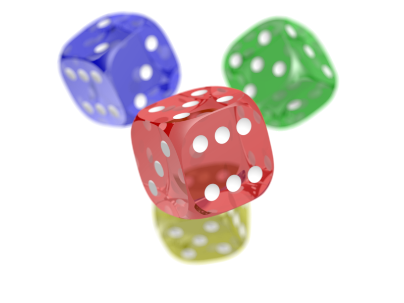 PNG transparency demonstration24bit PNG with 8bit alpha layer